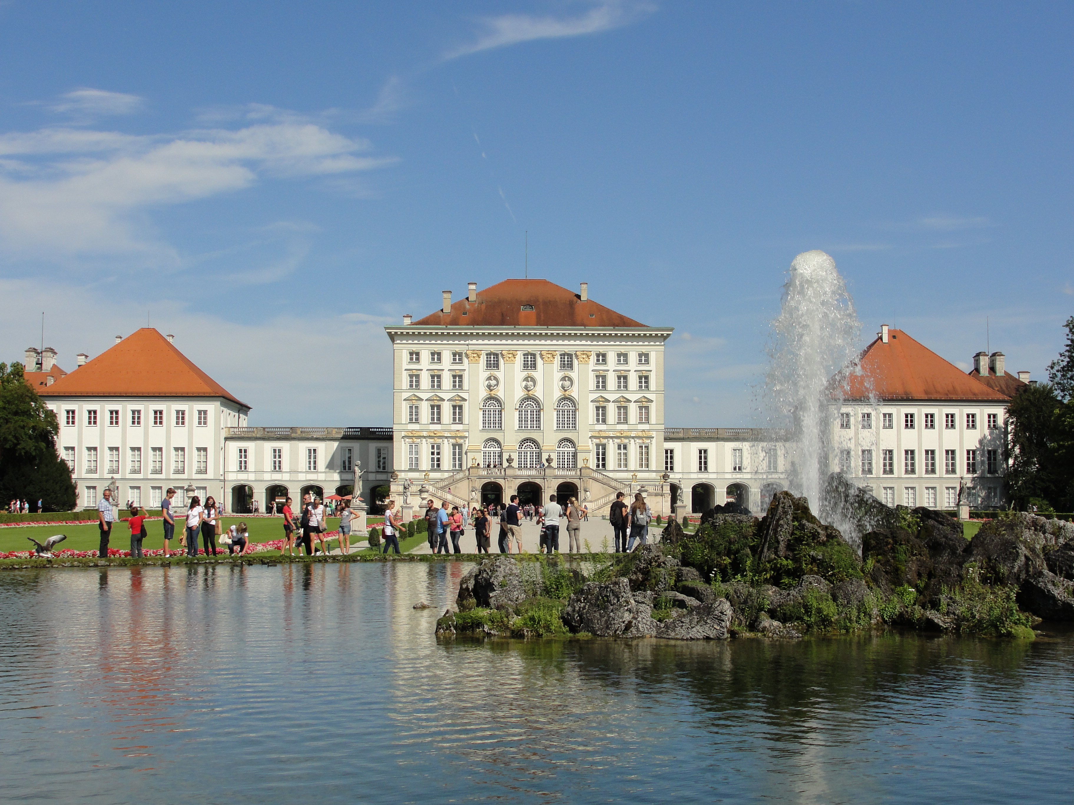 The Nymphenburg Palace seen from behind with a beautiful fountain in front!